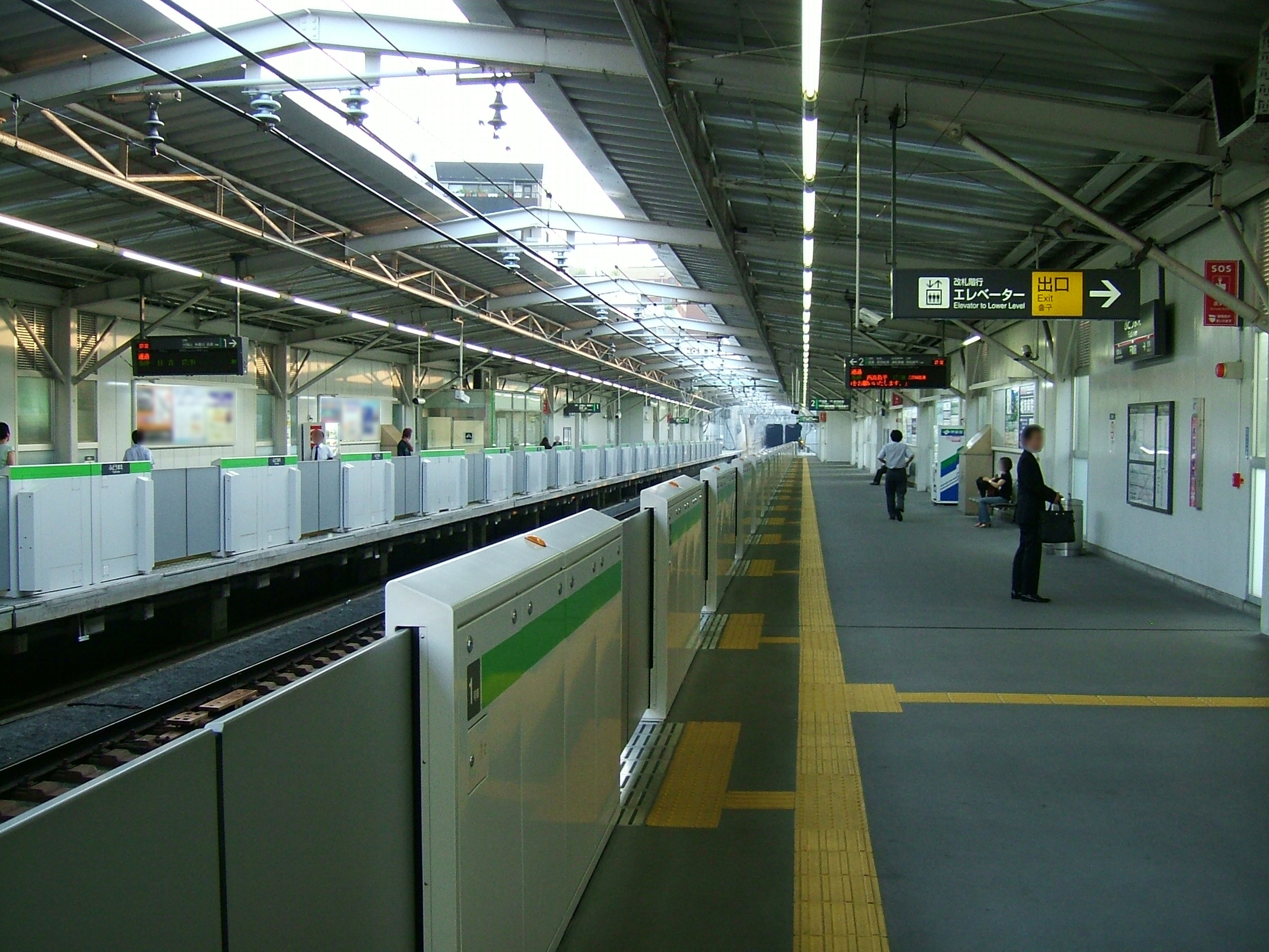 The platforms at Fudōmae Station on the Tokyu Meguro Line in Tokyo